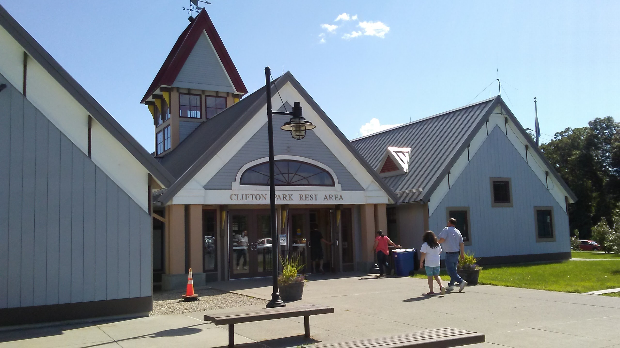 A photo of the Clifton Park Rest Area located in New York